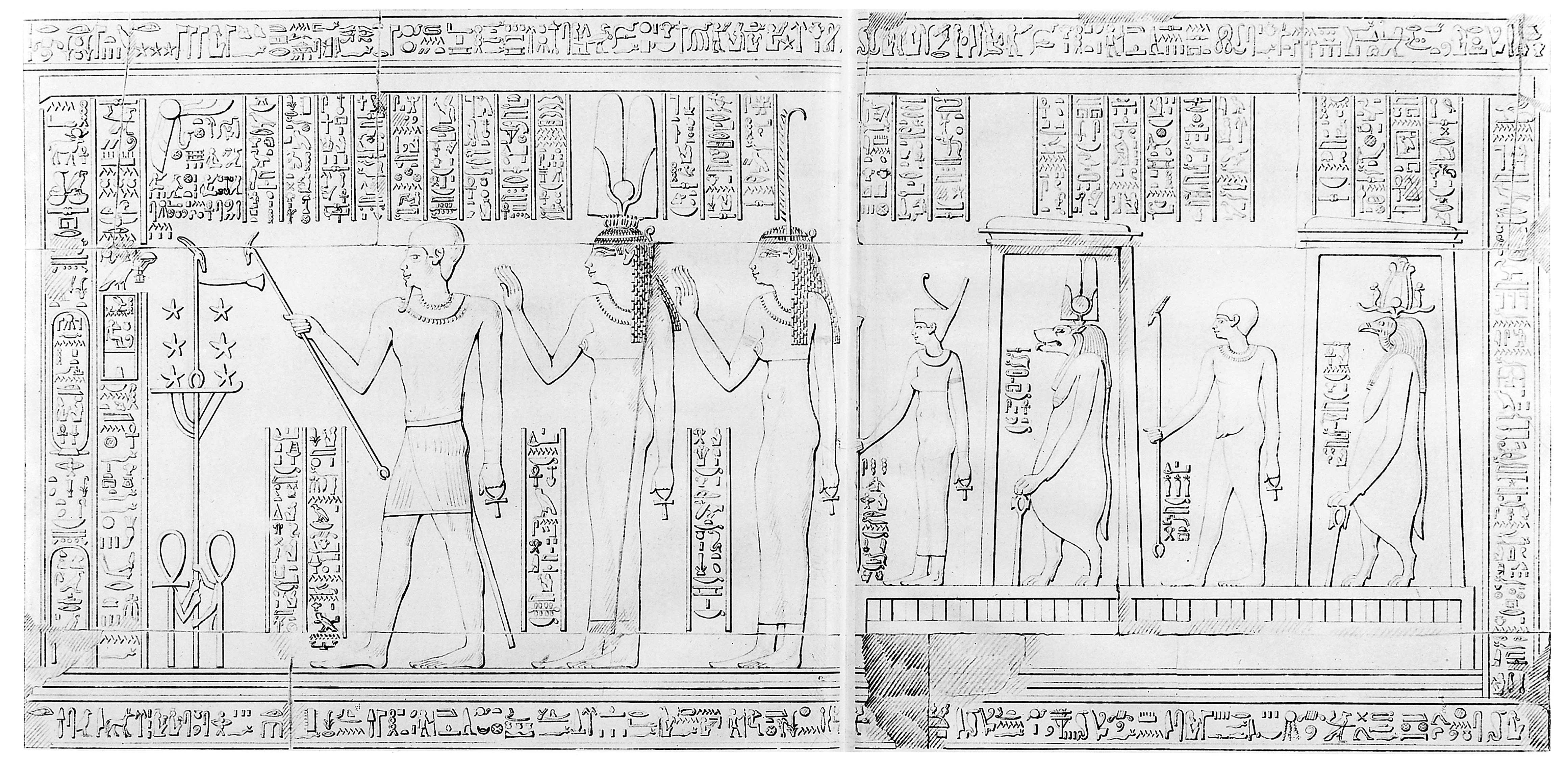 Reproductions of pencil drawings of Amenophis and various Goddesses, inner sanctuary- south wall, Temple of Deir-El-Bahari, Thebes. Wellcome Images Keywords: egyptology; archaeology: thebes; Art; Amenhotep